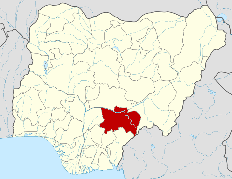 Map locator of Nigeria.